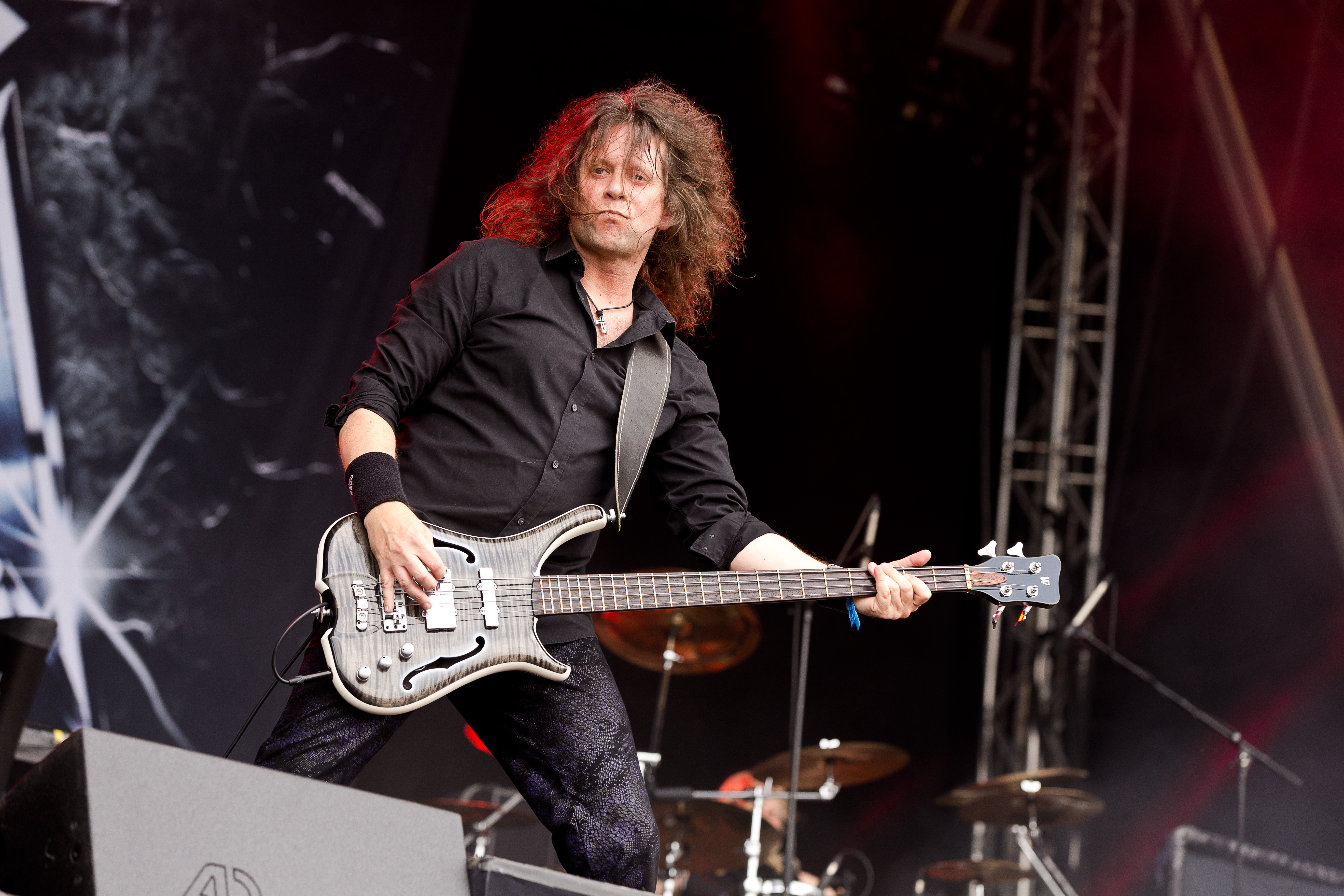 The German hard rock band Axxis at the Rockharz Open Air 2016 in Ballenstedt/Germany.